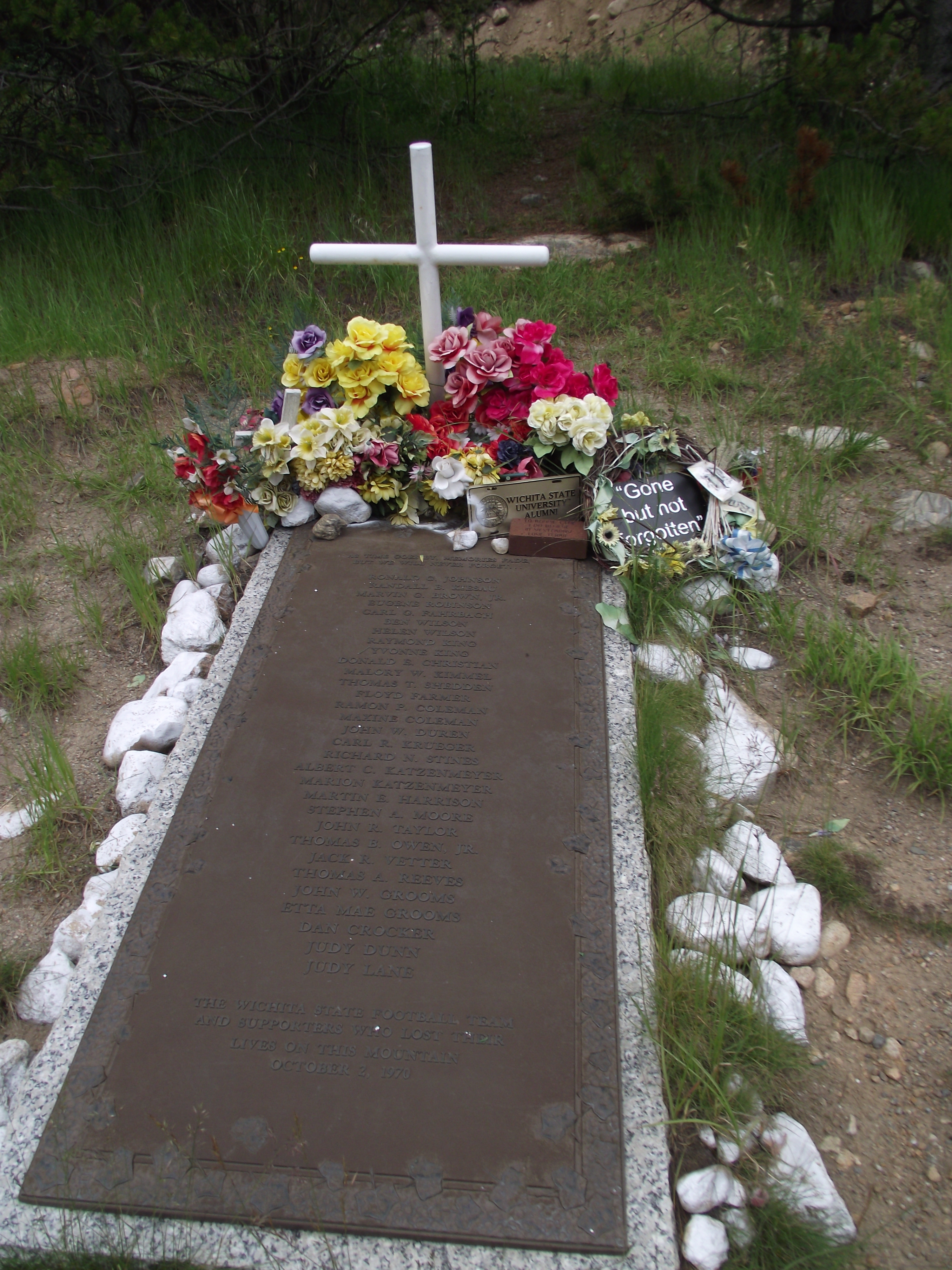 Highway memorial for Wichita University football team. 1970 Plane crash near the Loveland Ski Area in CO.